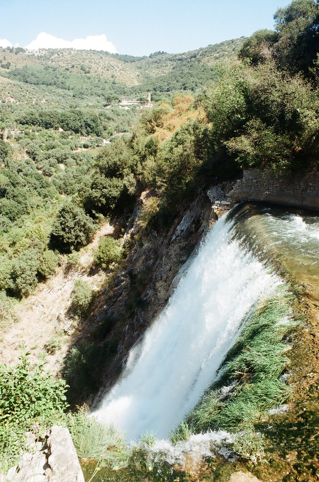 Great Cascade, September 2011